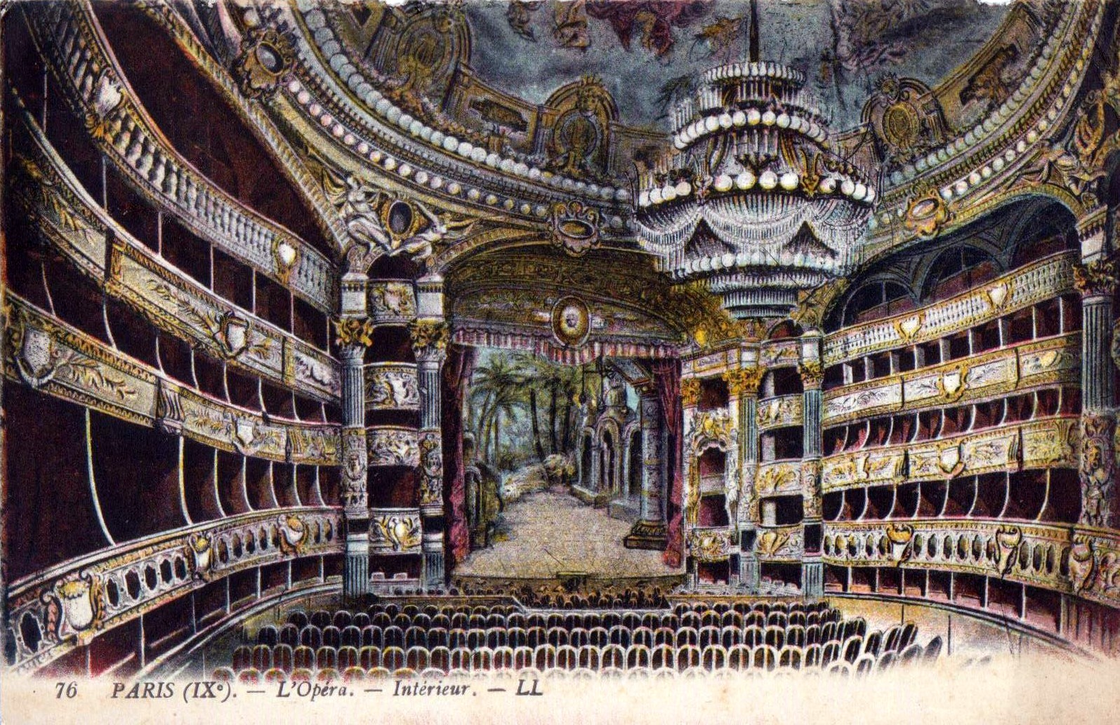 Paris. Palais Garnier. Interior. Postcard from 1909. Publisher: Lucien Levy & Sons. Paris.